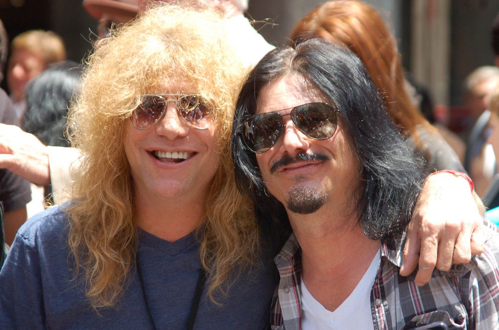 Steven Adler and Gilby Clarke at a ceremony for Slash to receive a star on the Hollywood Walk of Fame.